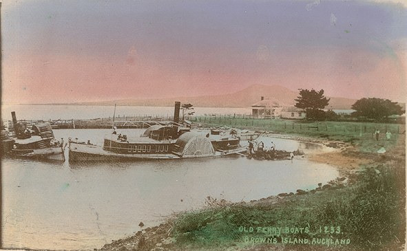 Antique postcard from 1908 of Browns Island, Auckland, showing dumped paddle steamer ferries. The scan is a cropped detail of the postcard. Publisher was W A Price or WAP.